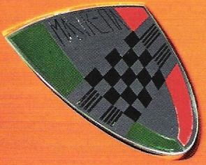 logo mastretta